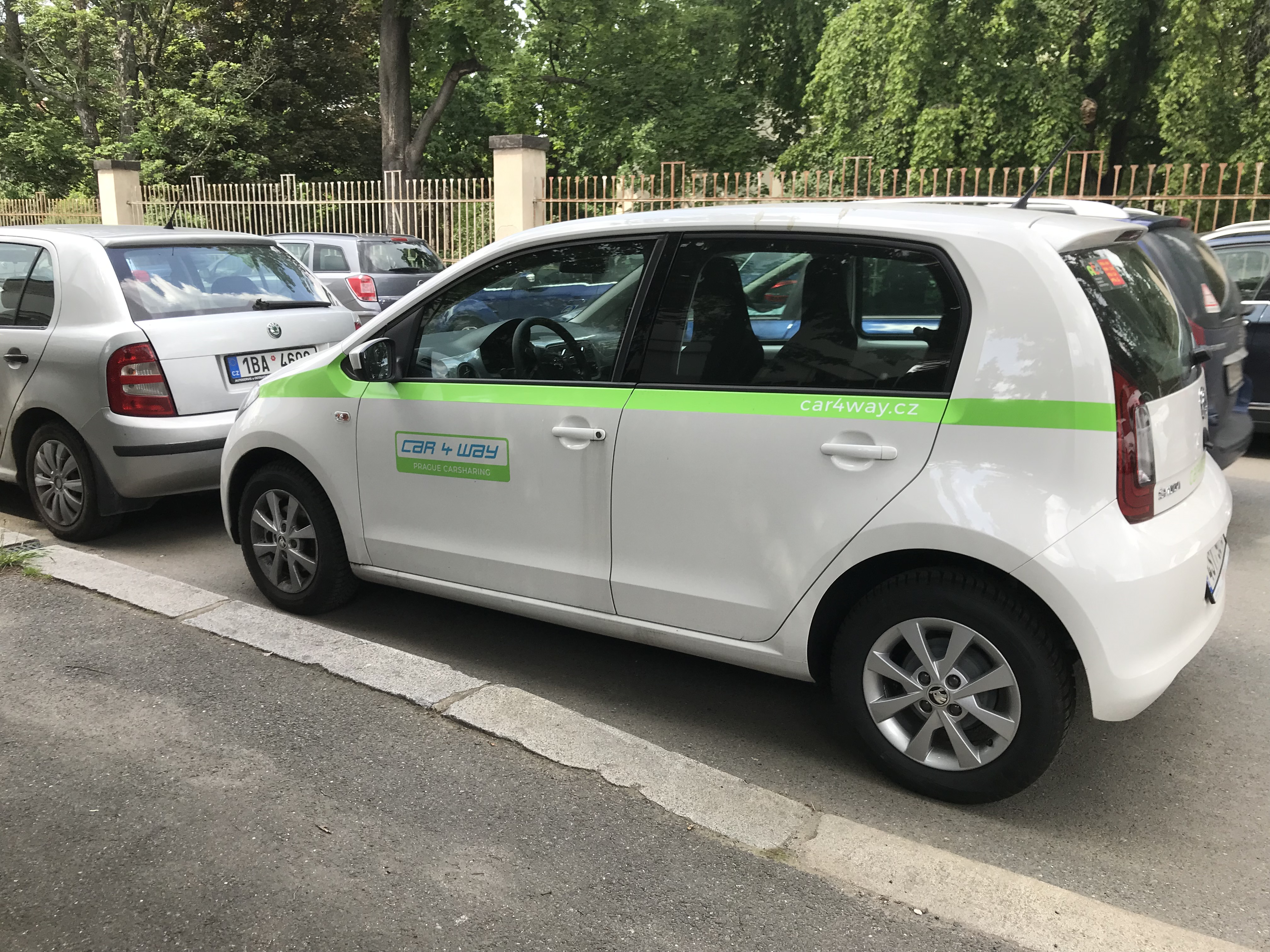 CAR4WAY shared car (carsharing) in Prague, Bohnice, Ústavní street